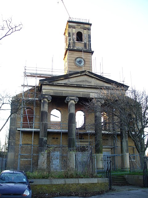 Former Dockyard Church, Bluetown, Sheerness, Kent. Designed by George Ledwell Taylor, architect for the Navy Board, and built under Sir John Rennie Snr, engineer as the Royal Naval Dockyard church in 1828. Rebuilt reusing the clock tower after a fire in 1884. More recently used as squash court and community centre. Recently again damaged by fire.